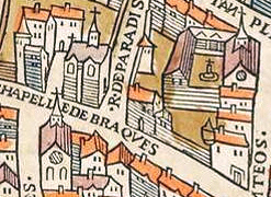 "Hôtel de Clisson" on the plan of Truschet and Hoyau (1550).